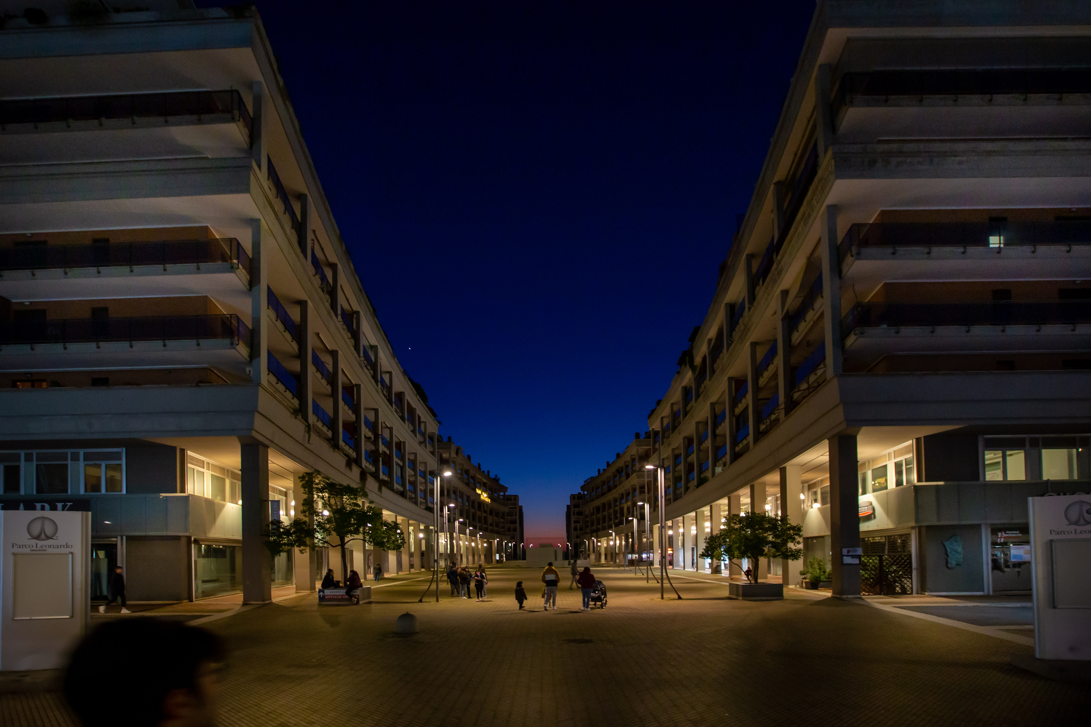 Parco Leonardo is a district of Fiumicino (RM - Italy)